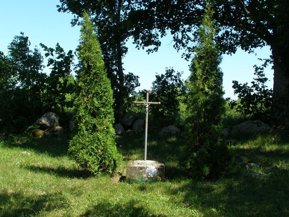 Daukšiai, Skuodas district, Lithuania